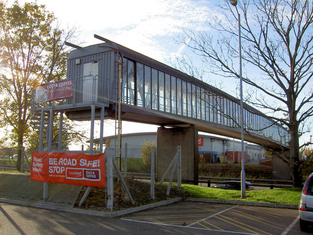 The bridge to nowhere. Unused footbridge over the motorway M1, near to Rothersthorpe, Northamptonshire, Great Britain